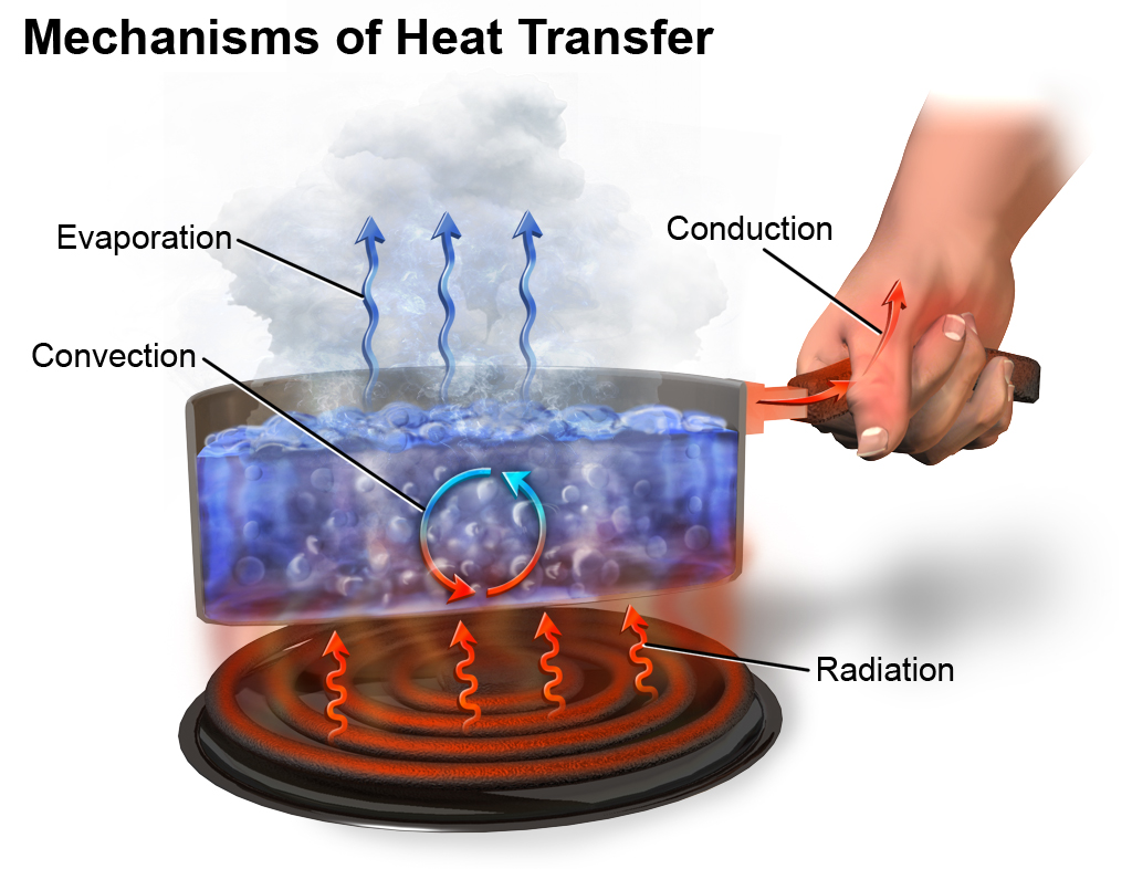 A medical illustration depicting the transfer of heat.